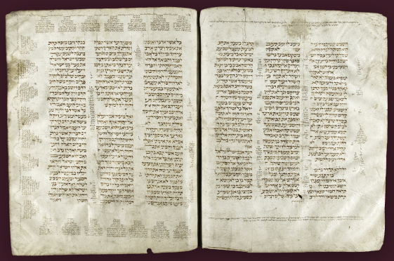 Bible Erfurt with Masorah